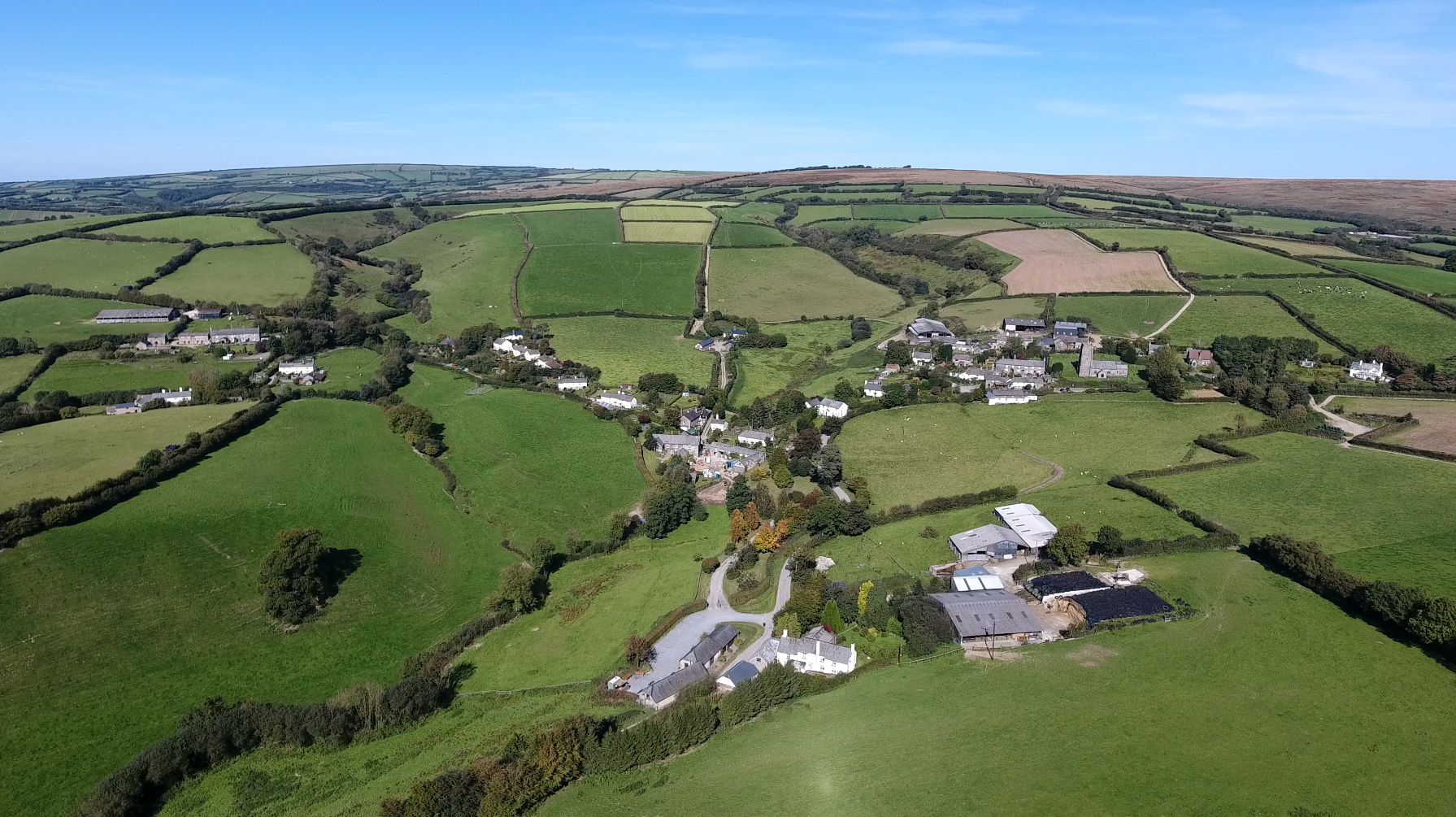 Molland, Devon, aerial panorama viewed from south, September 2018. Far left: Great Champson, Middle Champson, Little Champson. Foreground right: Copphall Farm; foreground left: estate office. Right horizon is Molland Moor.